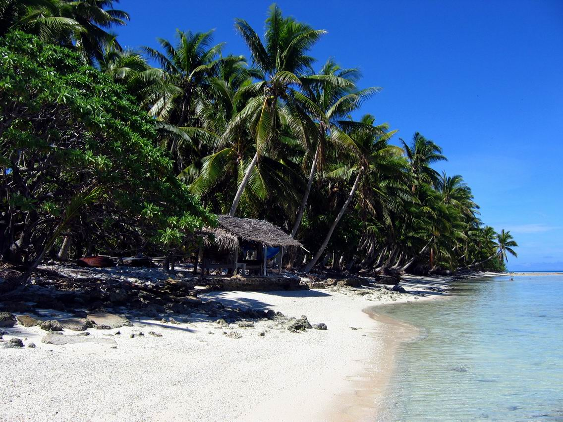 Anchorage Island, Suwarrov atoll, Cook Islands